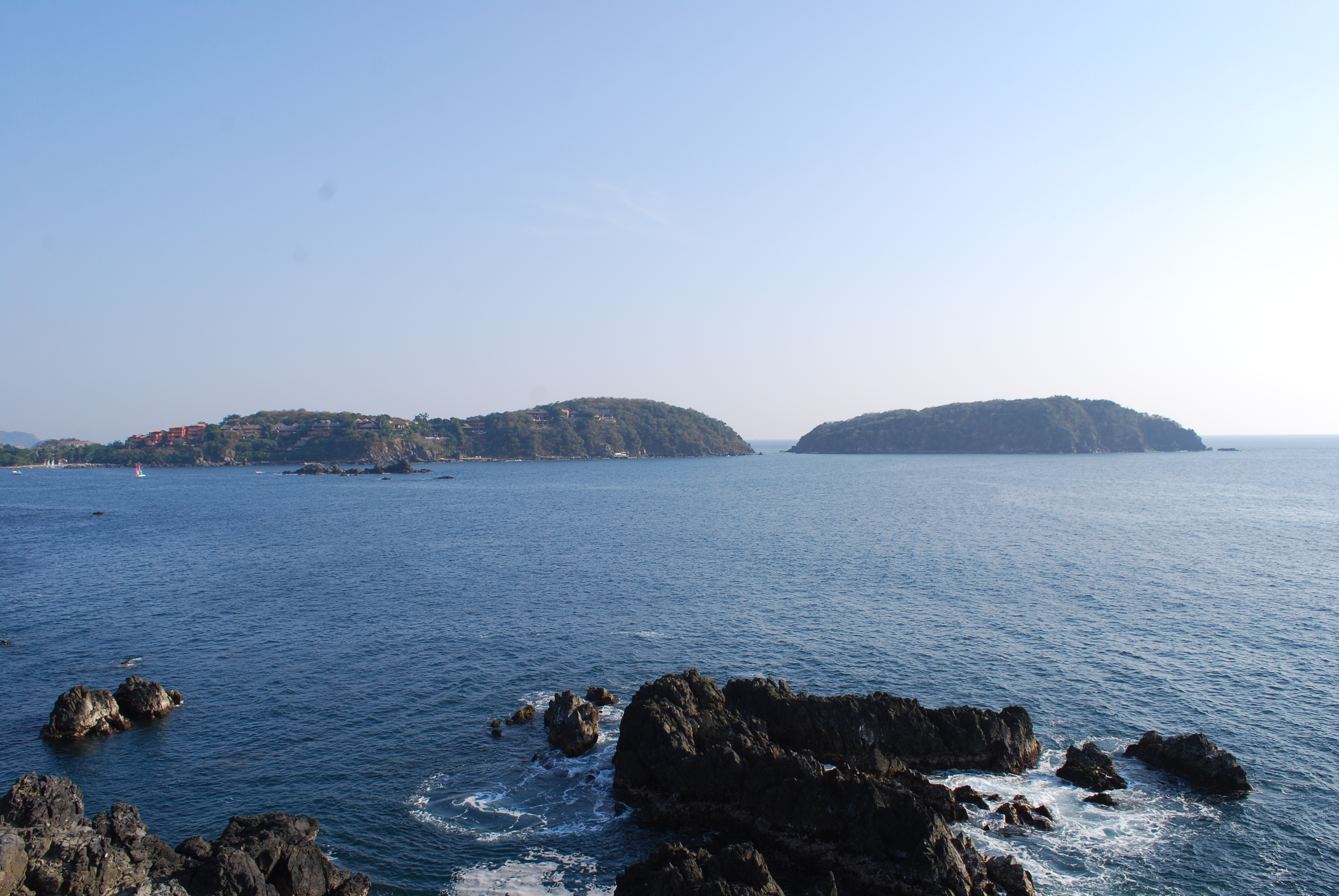 Looking south from Isla Ixtapa, Zihuatanejo, Mexico